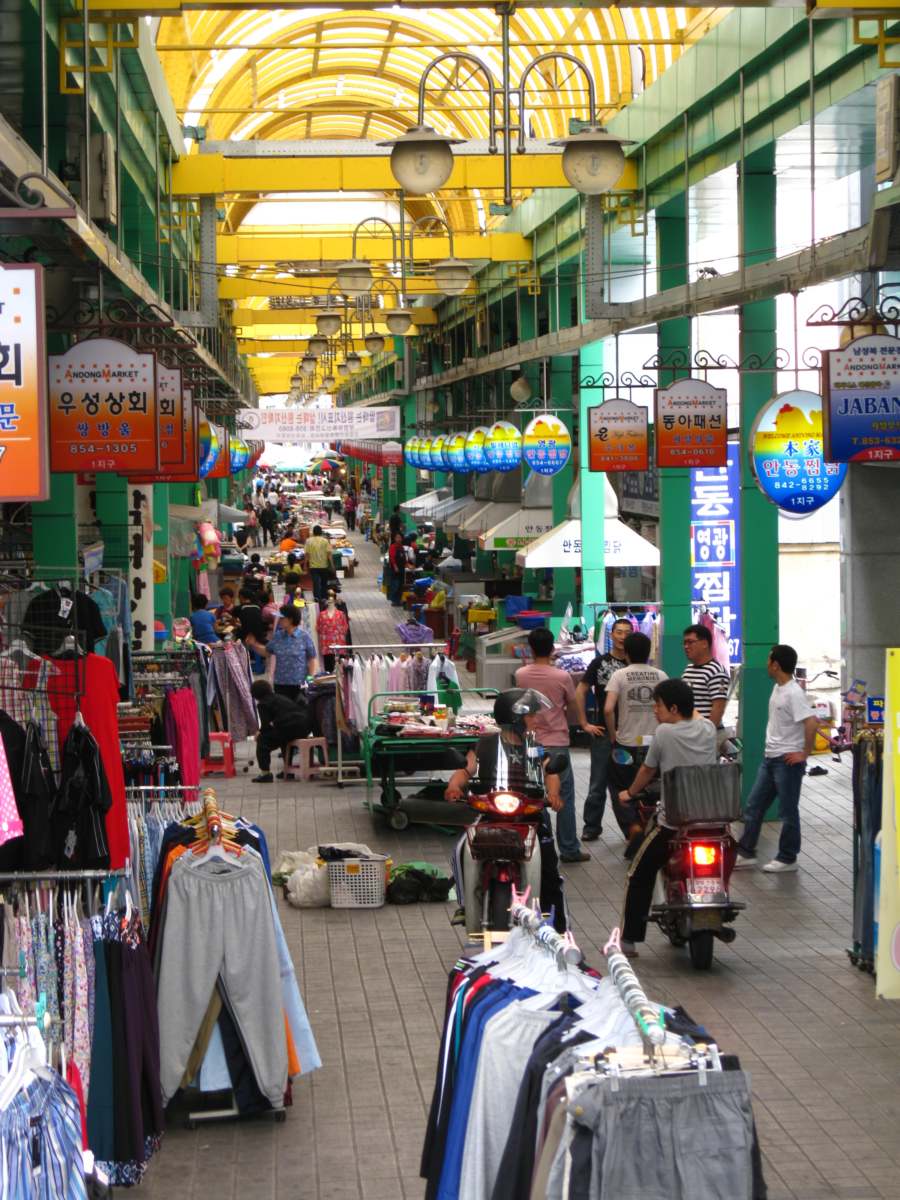 Inside of Andong Market